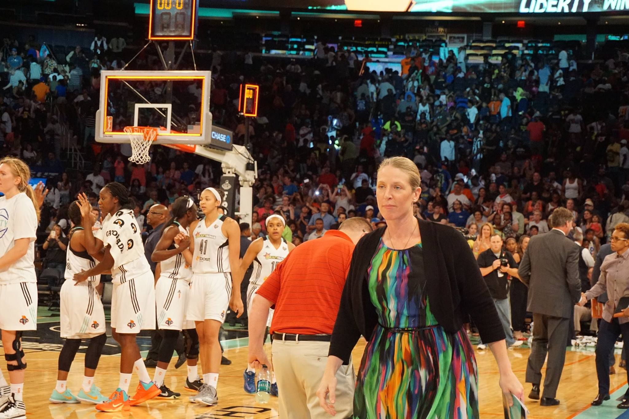 Katie Smith at 2 August 2015 game